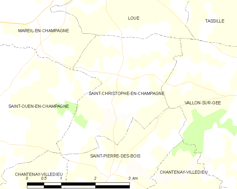 Map of French municipality